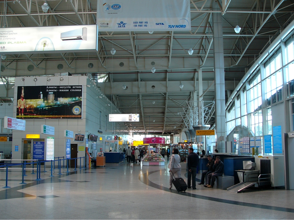 Almaty International Airport departure hall